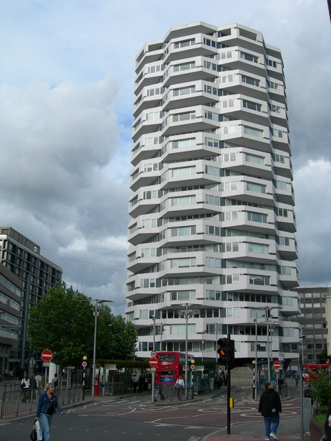 NLA Tower, 12-16 Addiscombe Road, Croydon